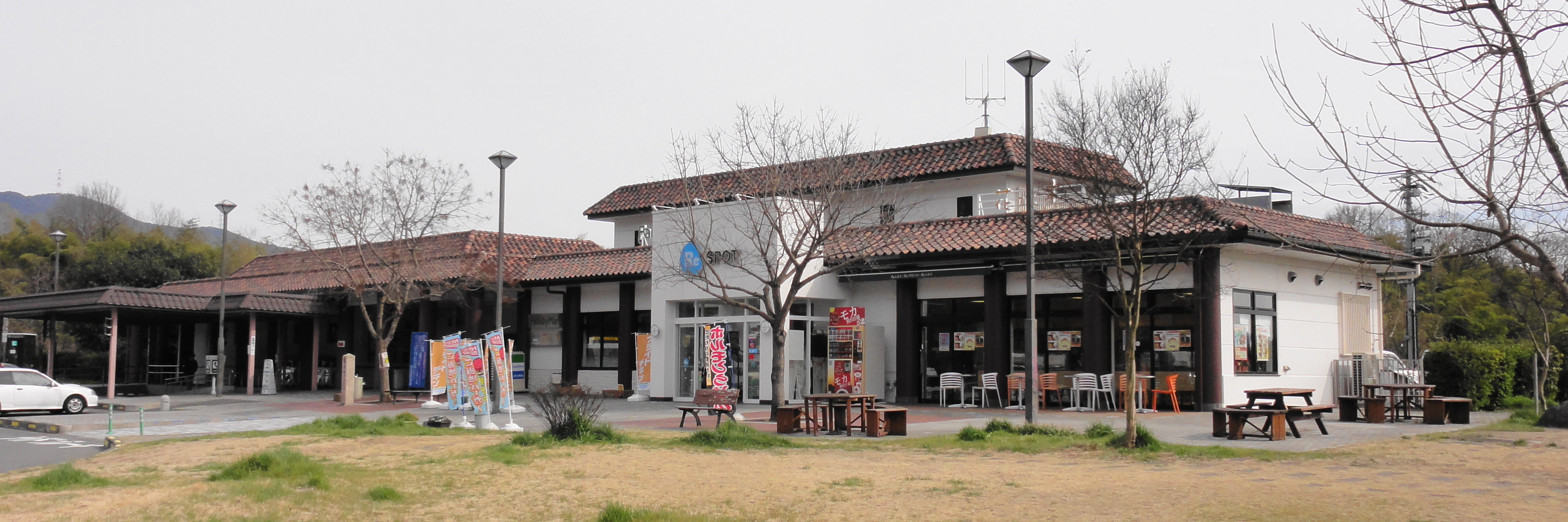 Seto Parking Area Down line (FamilyMart), Setocho-Daii, Higashi-ku, Okayama, Japan